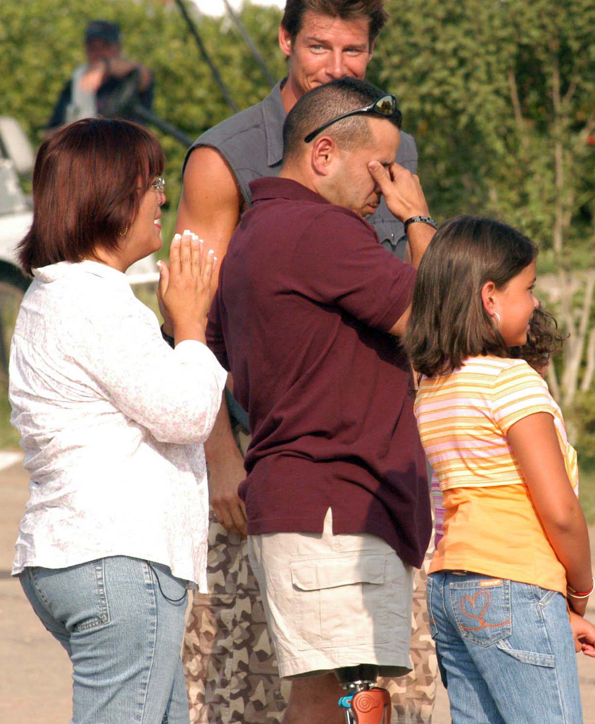 Ty Pennington